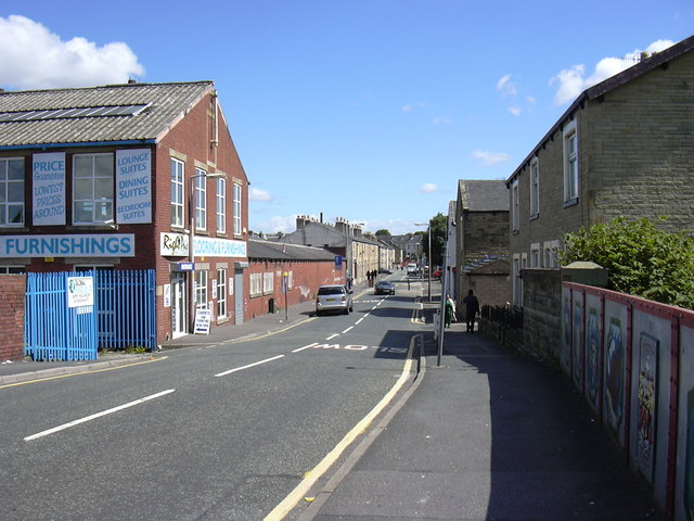 Danes House Road